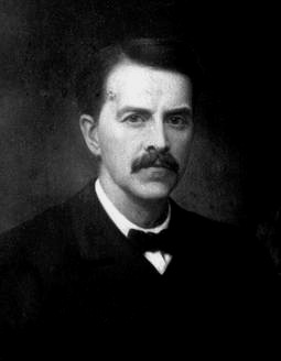 Dr. Hunter Holmes McGuire. Portrait owned by Virginia Commonwealth University.